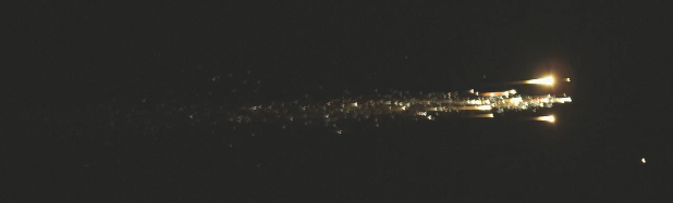 Hayabusa re-entry filmed by Ames Research 2010-06-13 at 13:51 UT by a camera onboard NASA's DC-8 Airborne Laboratory. The glowing return capsule is seen forward of and below the parent Hayabusa probe bus as the latter breaks up. This crop has been extracted from a frame at 25 seconds of the original video.